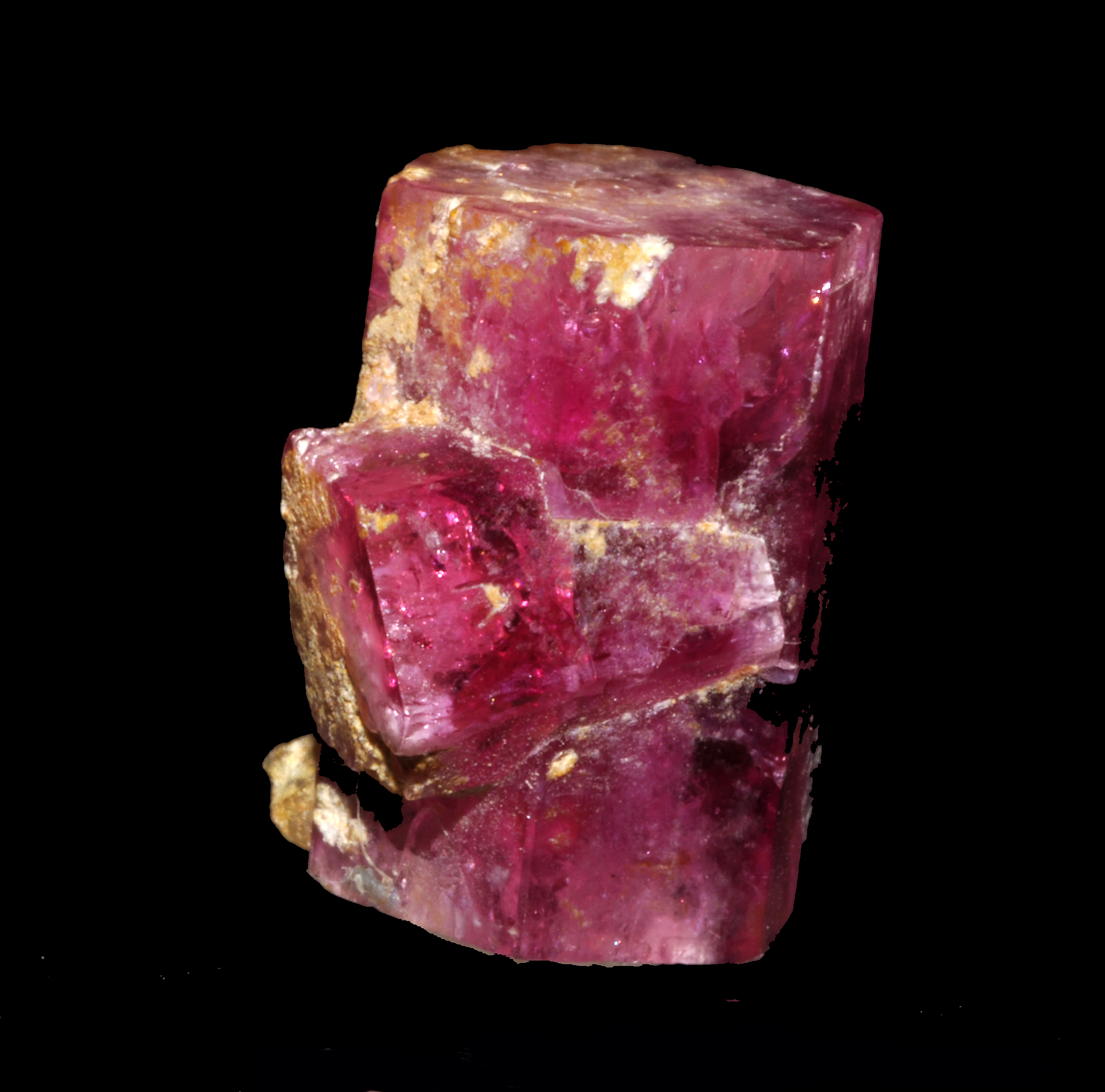 beryl var. red beryl : Violet Claims, Wah Wah Mts, Beaver County, Utah, USA - crystal : 11 mm